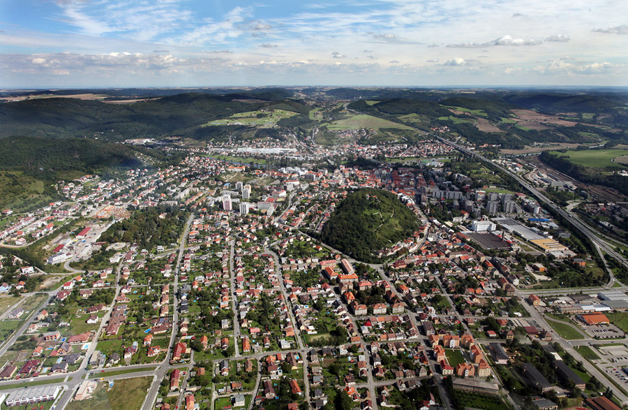 Beroun, Czech Republic